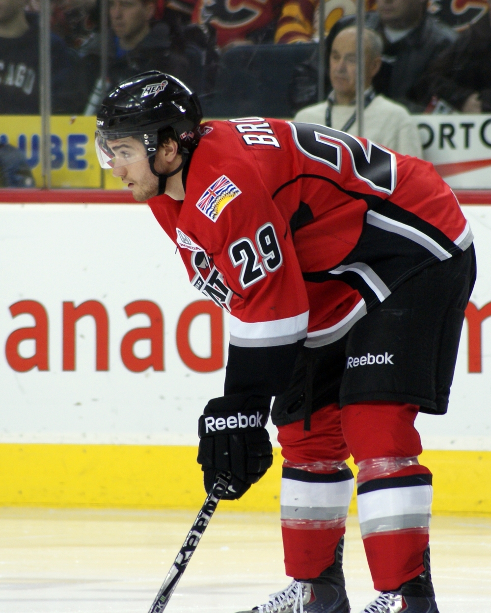 Photo was taken on February 18, 2011 during an American Hockey League (AHL) regular season game.